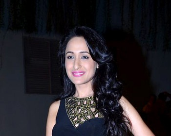 Indian actress Pragya Jaiswal at the launch of Celebrity Cricket League - Season 4.